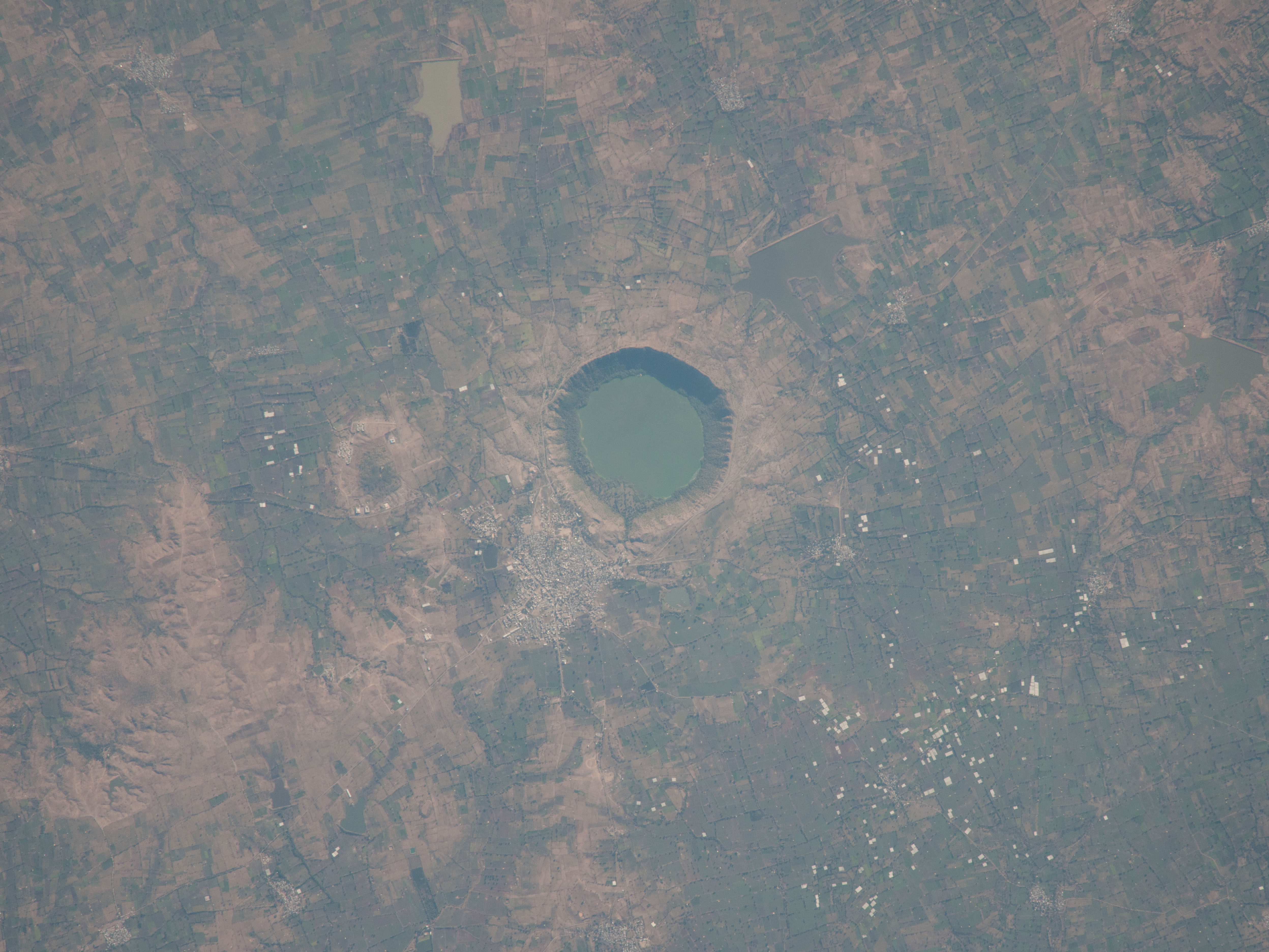 Lonar Lake (Marathi: लोणार सरोवर) is a saline soda lake located at Lonar in Buldana district, Maharashtra, India.